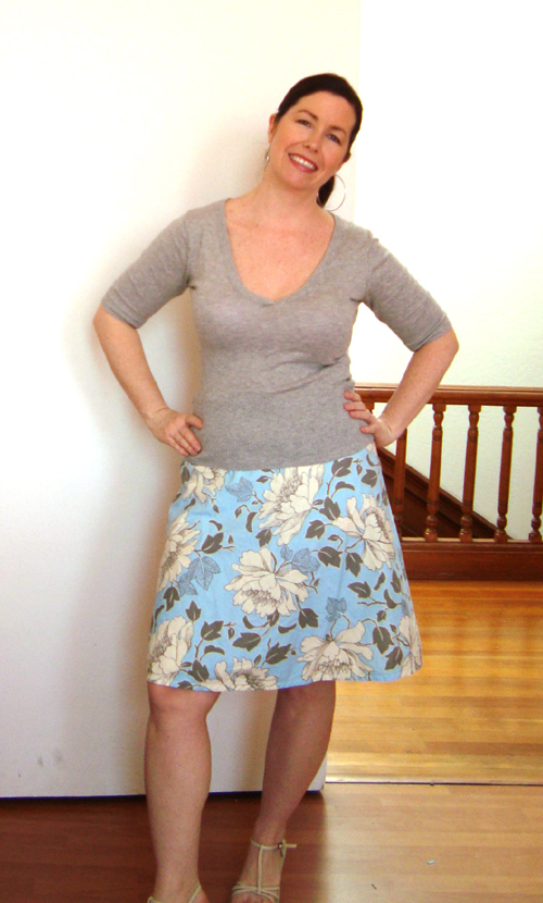 An A-line skirt, with top.